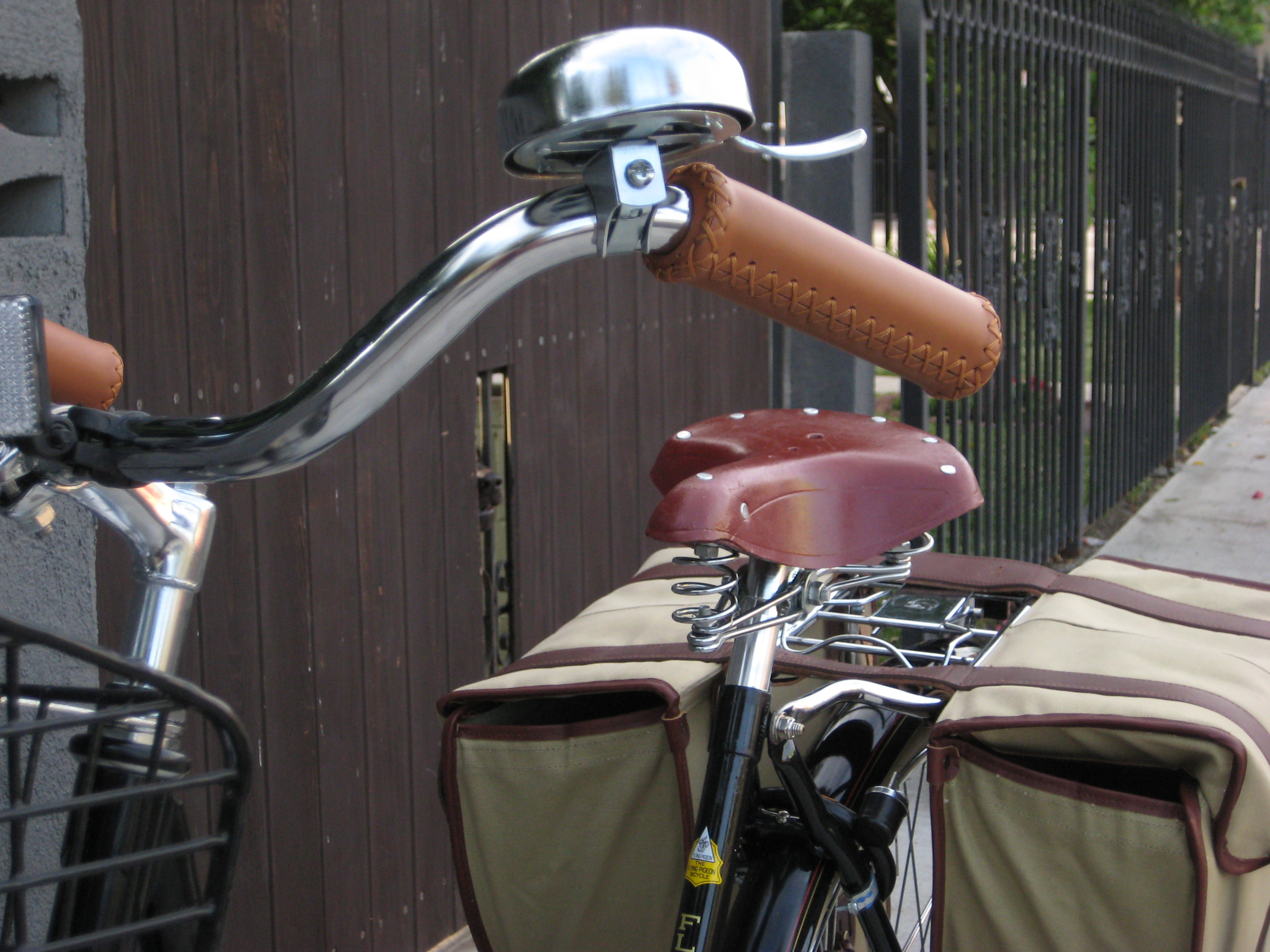 Roadster handlebars with leather grips and leather saddle